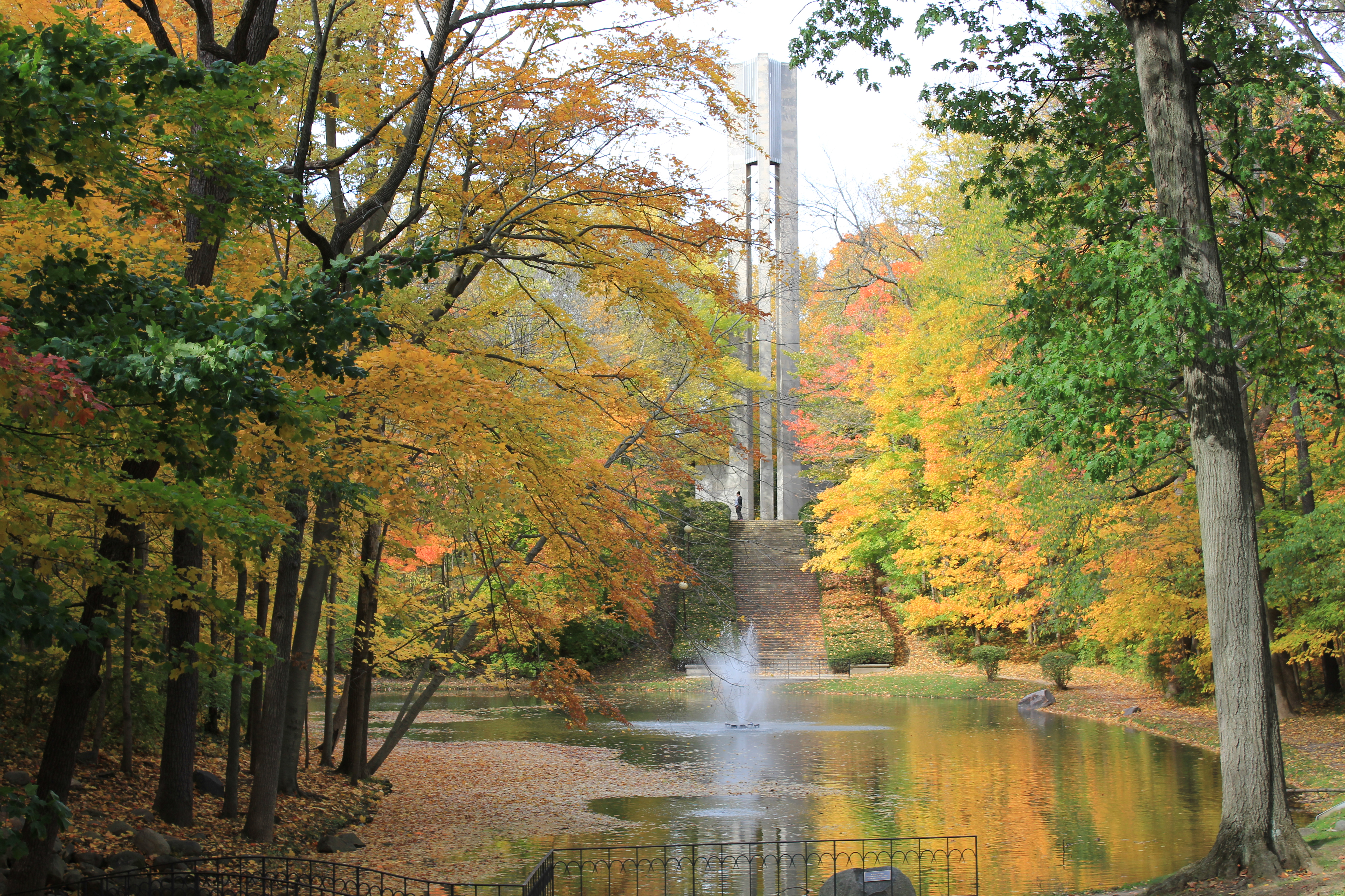 Butler University in the Fall, 2014